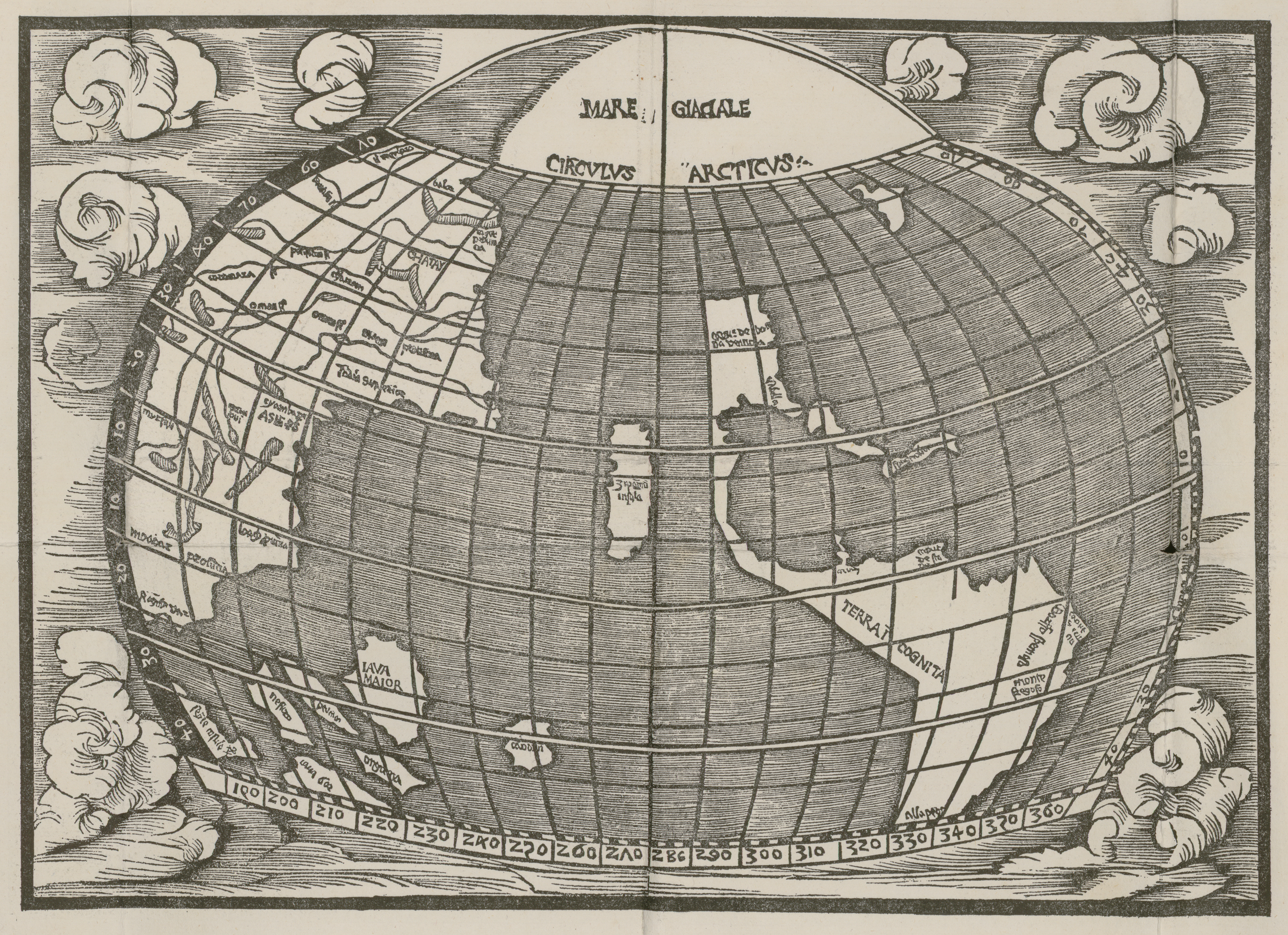 Map of North and South America showing the connection of the two continents by an isthmus. Published in Introductio in Ptholomei Cosmographiam (Introduction to the Cosmography of Ptolemy) by Jan of Stobnica, 1512